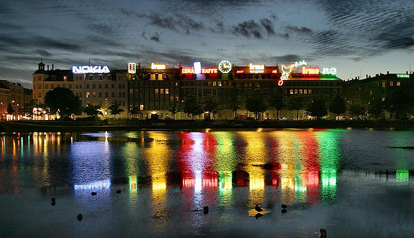 Nørrebro, Copenhagen, seen from "Søerne" "The lakes".